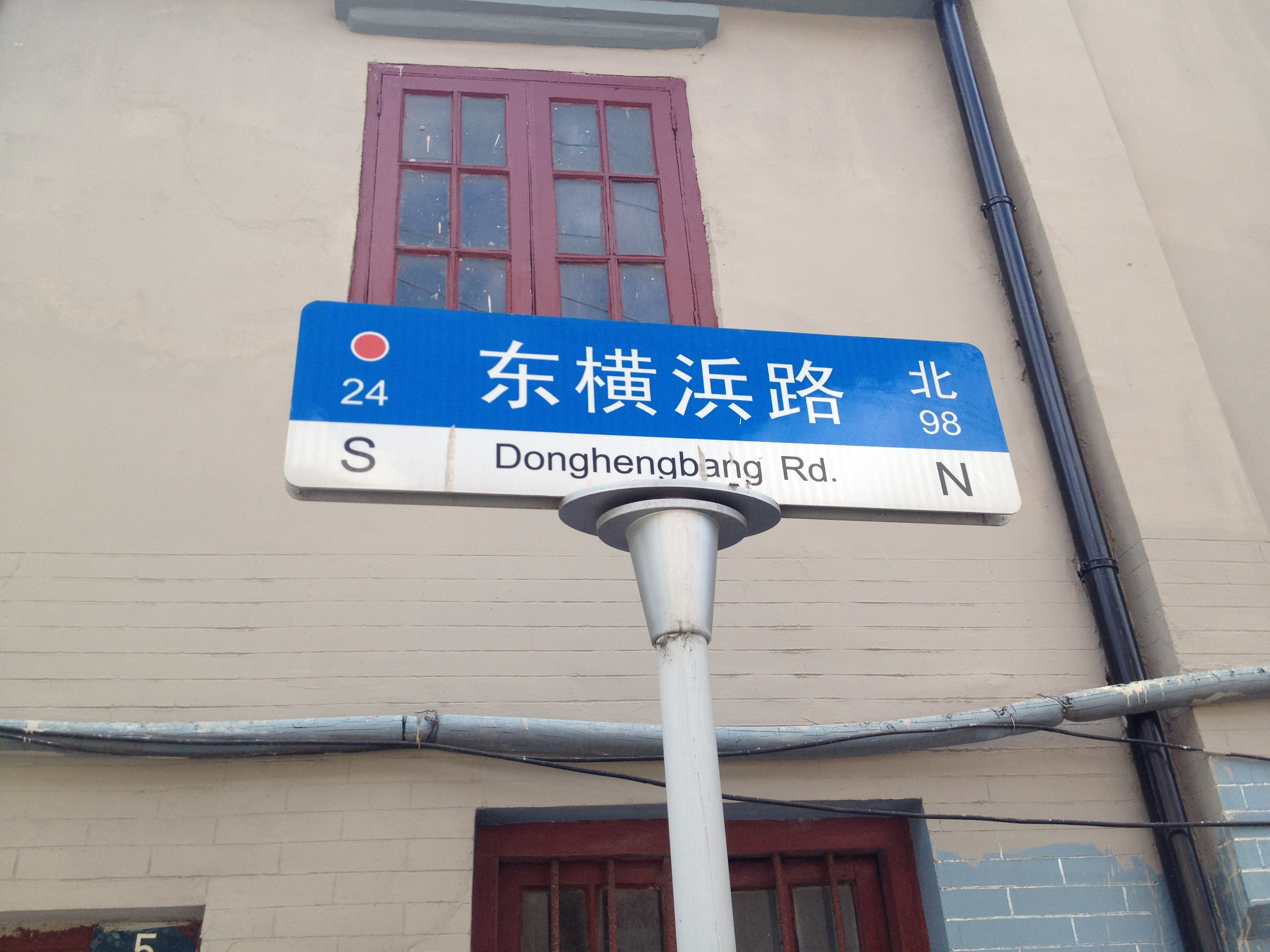 East Hengbang Road Shanghai